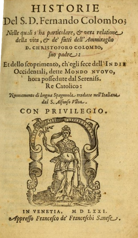 Fernando Colombo Historie 1571 title page